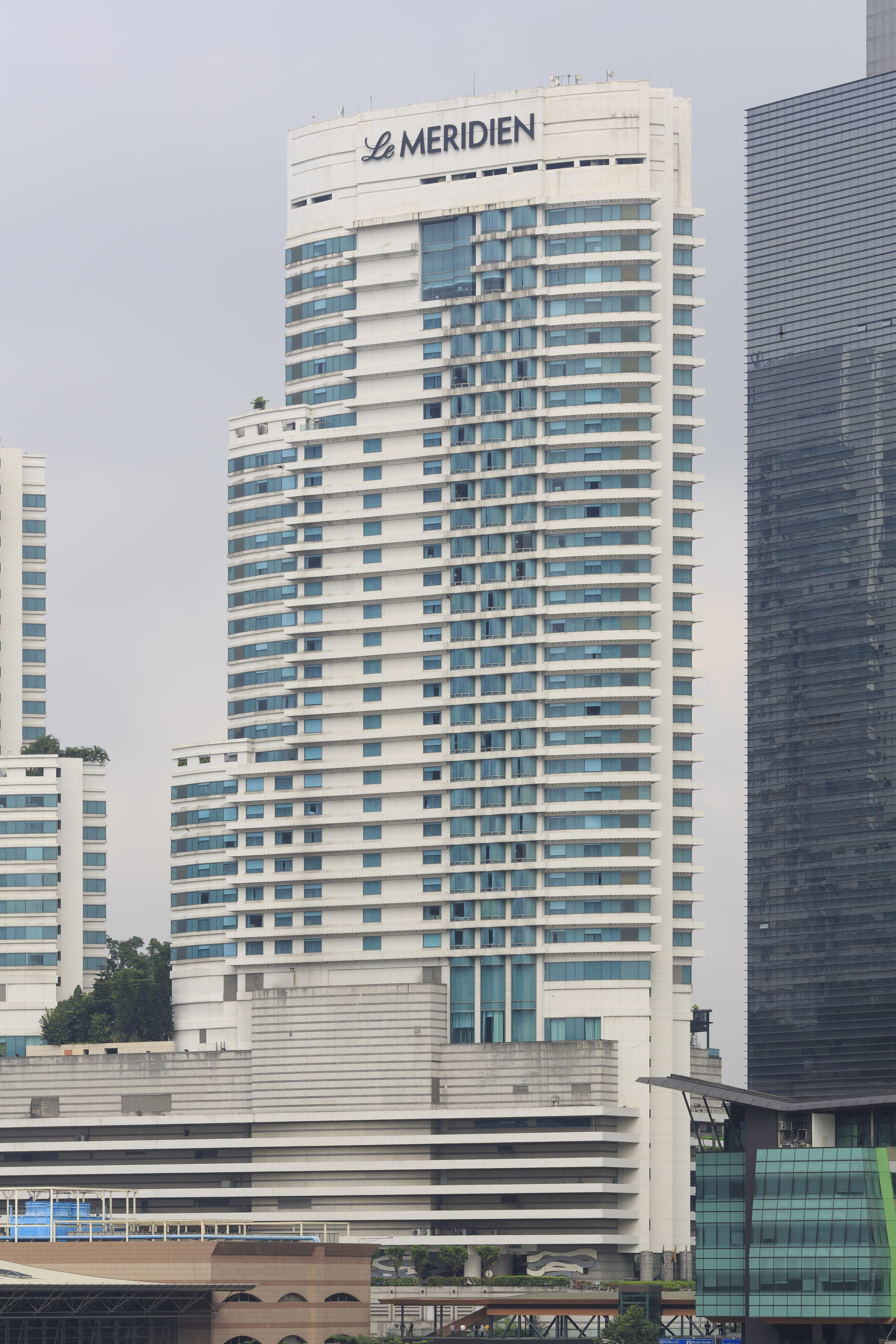 Kuala Lumpur, Malaysia: LeMeridien at Sentral Station